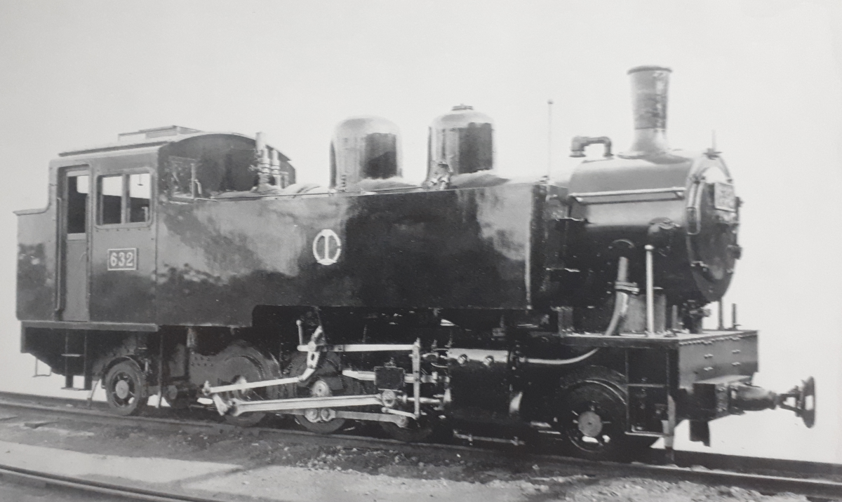 Class 630 steam locomotive of the Chosen Railway